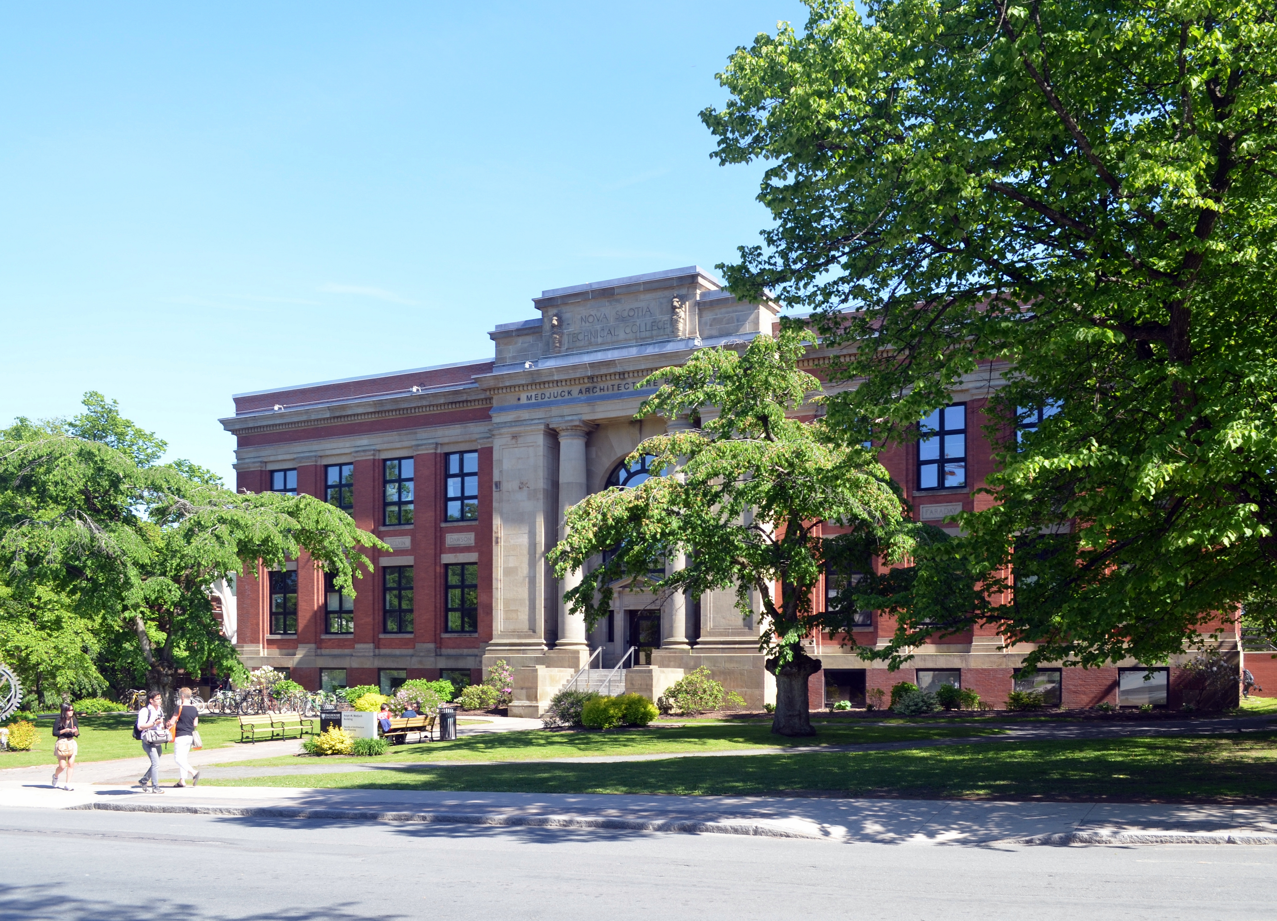 Medjuck Building, Dalhousie University, home to the School of Architecture and Planning.